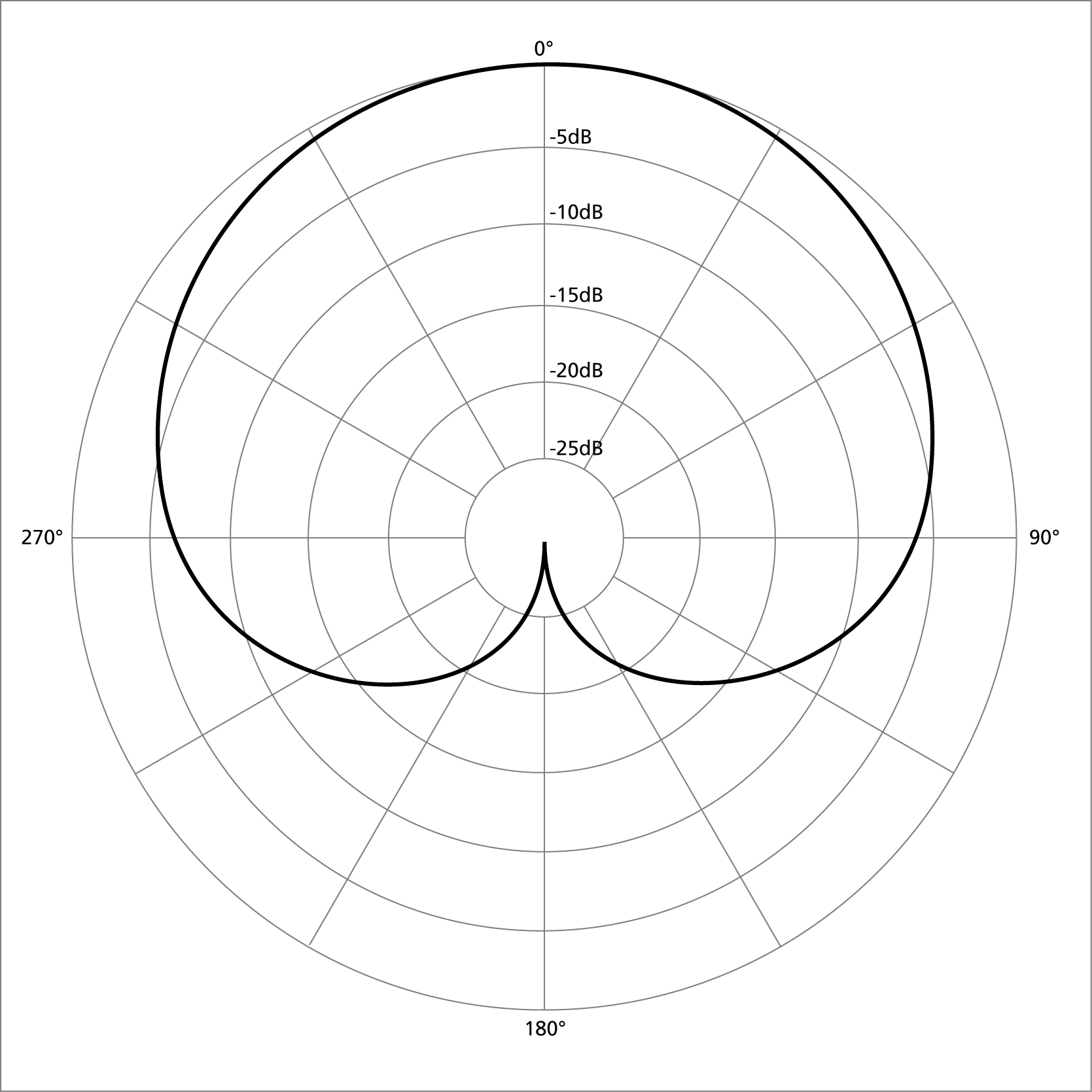 logarithmic polar pattern of cardioid characteristics